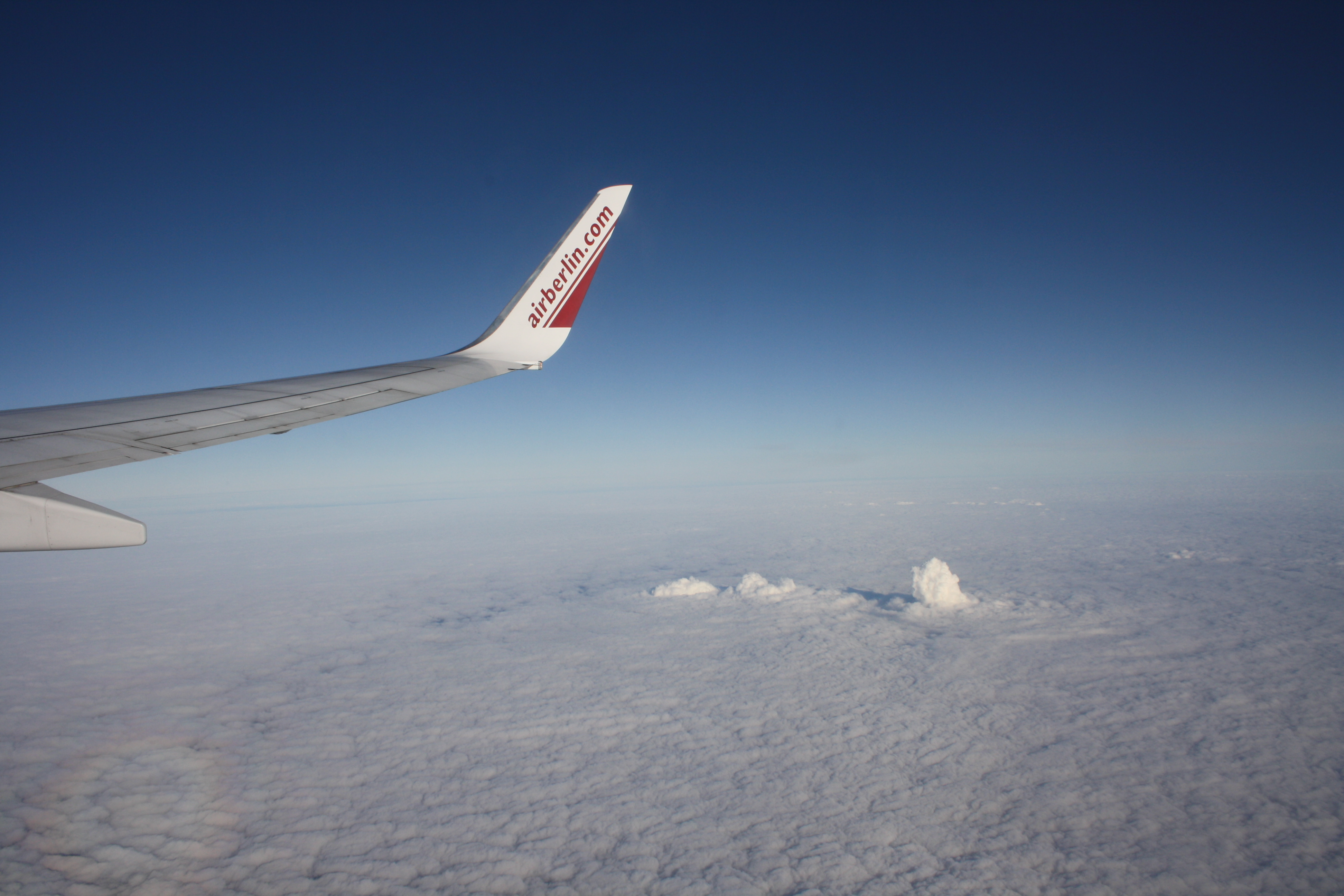 The steam plumes of Frimmersdorf powerstation (left), Neurath powerstation (middle) and Niederaußem powerstation (right) rise through the cloud layer.These clouds contain generally condensed water steam just like natural clouds. However, there is a certain amount of CO2 coming up from the powerstation which is invisible. Picture taken shortly after taking off at Cologne-Bonn Airport, Runway 14L and making a right turn, flying pretty exactly westwards. Aboard flight AB9250 to Mallorca, Registration D-ABBQ, looking northwards.